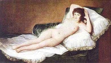 The Naked Maja (La maja desnuda)